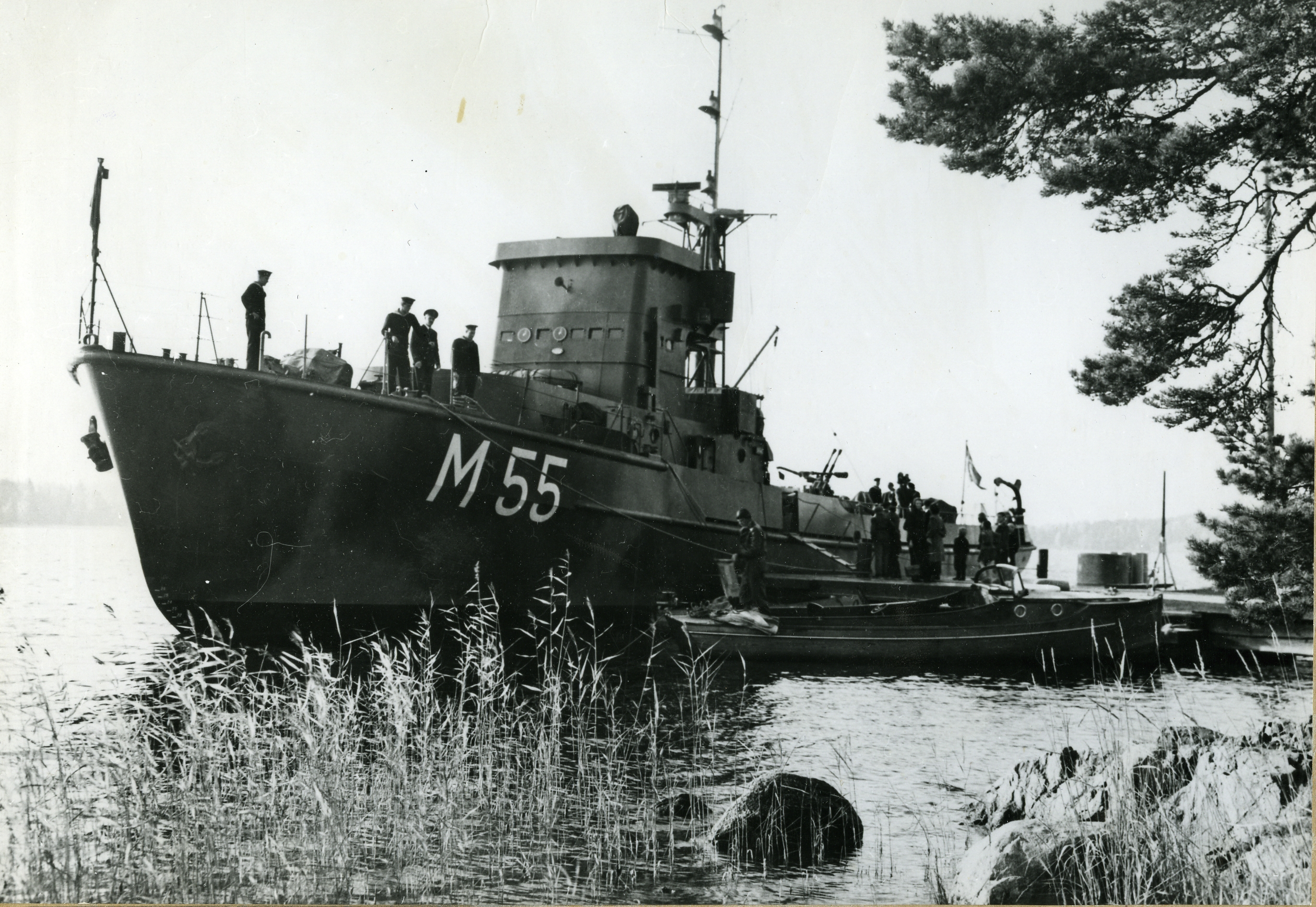 Swedish Navy minesweeper HMS Ornö (M55).